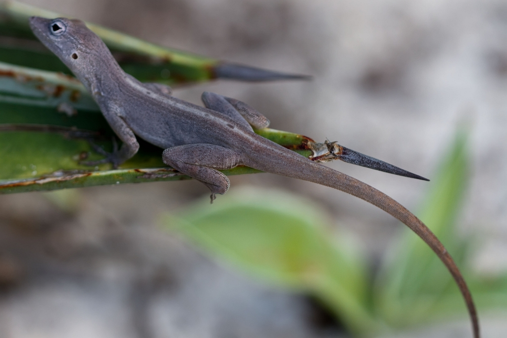 female Anolis scriptus